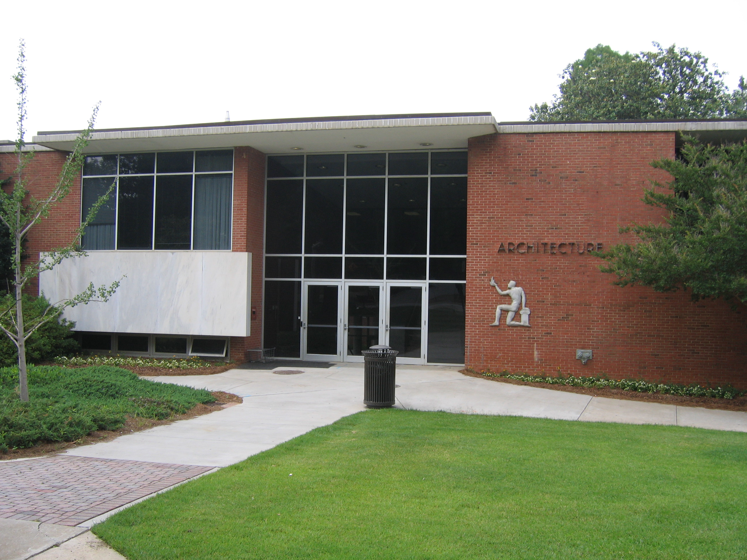 The Georgia Institute of Technology College of Architecture